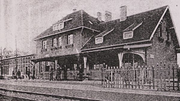 Bhf Randerath